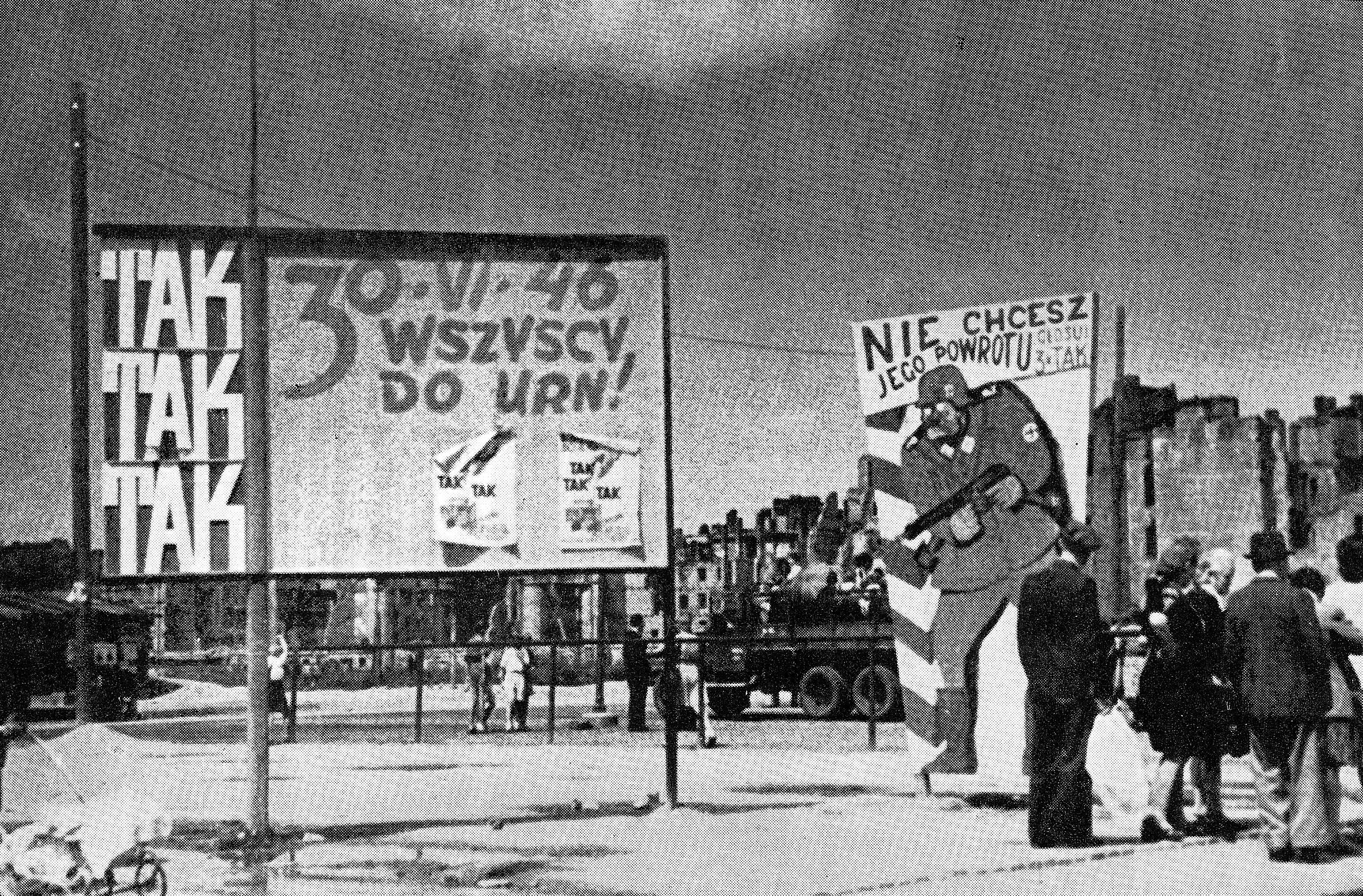 Propaganda boards prior to June 30th, 1946, referendum in Warsaw